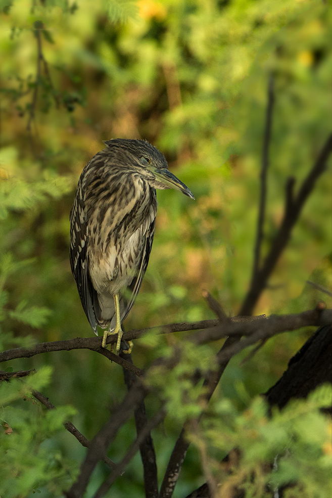 @ KNP Bharatpur